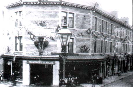 Trickett's Arcade c 1900, Waterfoot, Rossendale, Lancashire, England.